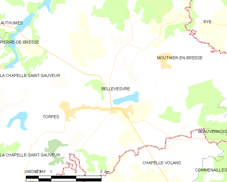 Map of French municipality